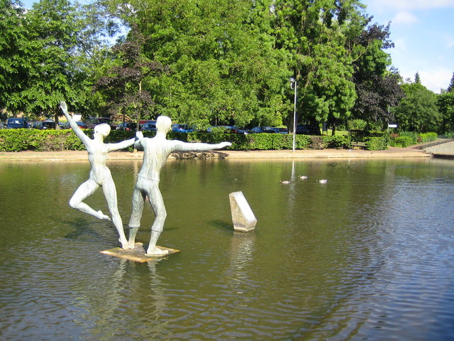 Hemel Hempstead: Rock'n'Roll. Rock'n'Roll is the name of this landmark sculpture in The Water Gardens, created by the French artist Hubert Yencesse and positioned here in the summer of 1962. The lake was created by the damming of the River Gade.